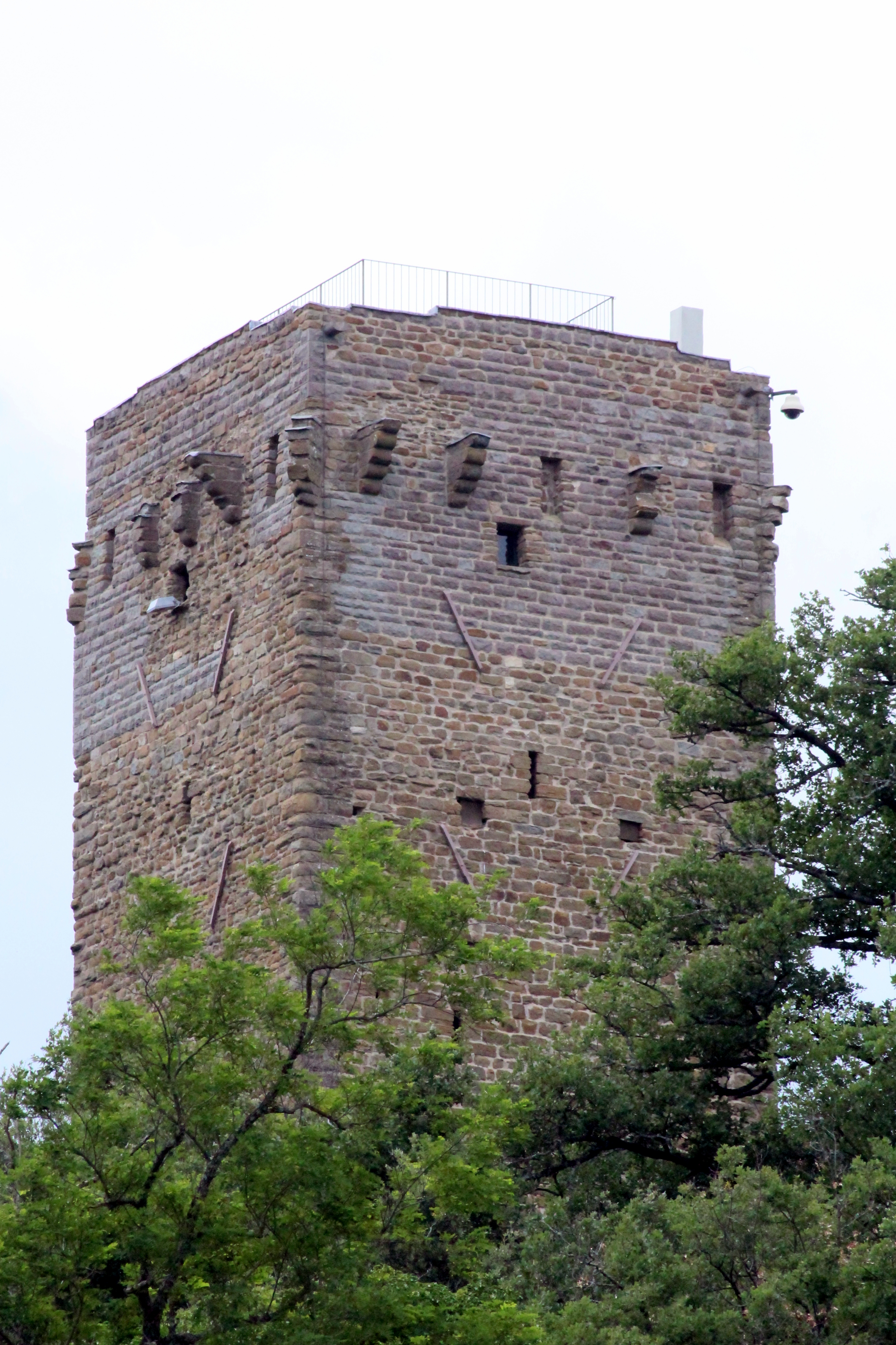 Tower Torre di Galatrona, part of the old fortifications of Galatrona, Municipality of Bucine, Province of Arezzo, Tuscany, Italy